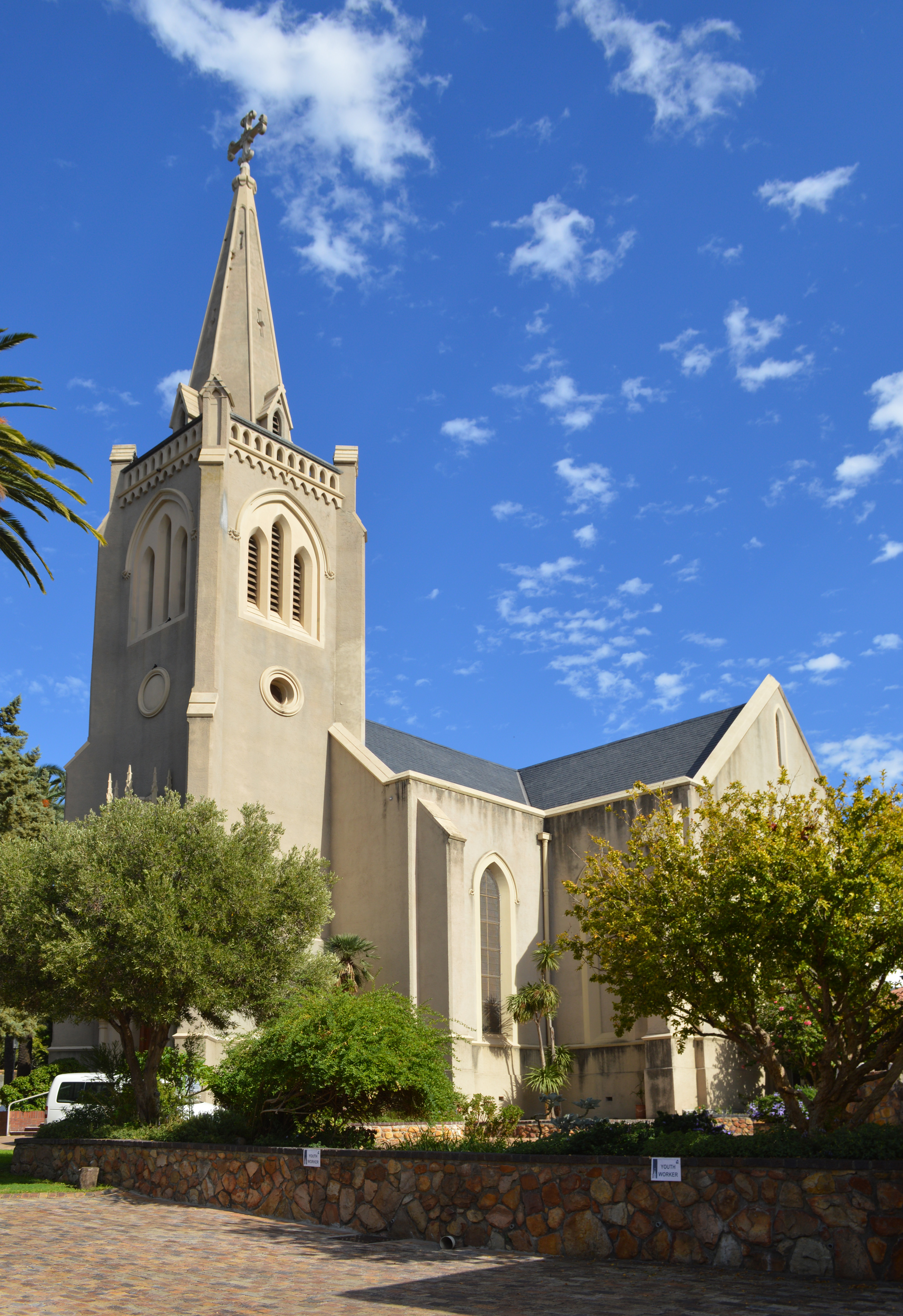 The Evangelical Lutheran Church of Saint Martini, Long Straat, Cape Town